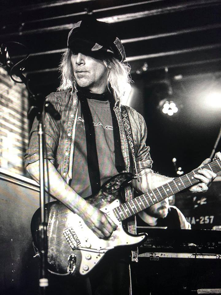 Paul Santo, musician playing guitar one of a larger collection of B&W photos taken by Paul Lester aka "BostonCommercial" for the Joe Perry Project band while they were on tour in New England.